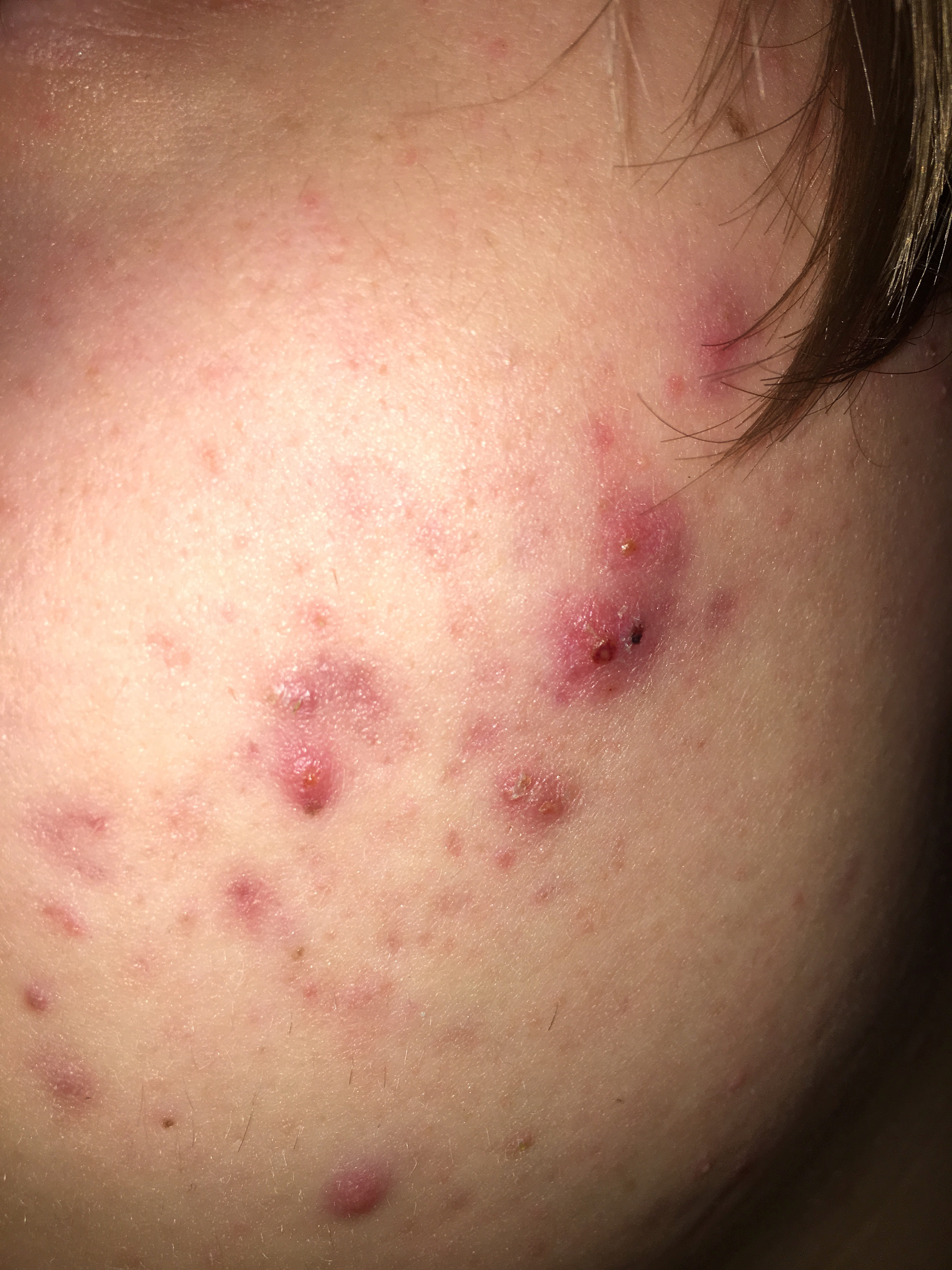 Pimples on a face